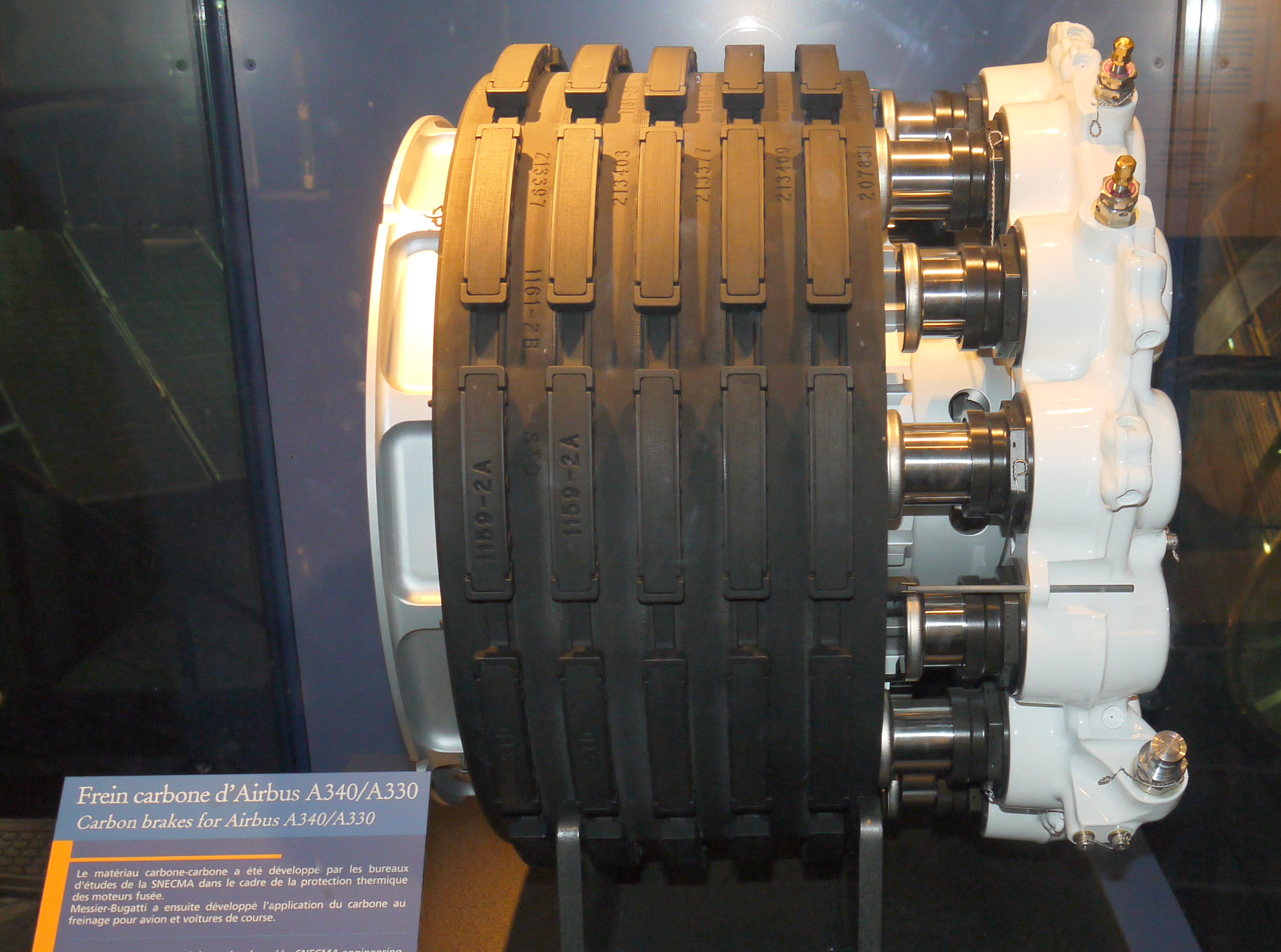 Carbon brake of Airbus A330/A340, Museum of Air and Space Paris, Le Bourget (France)